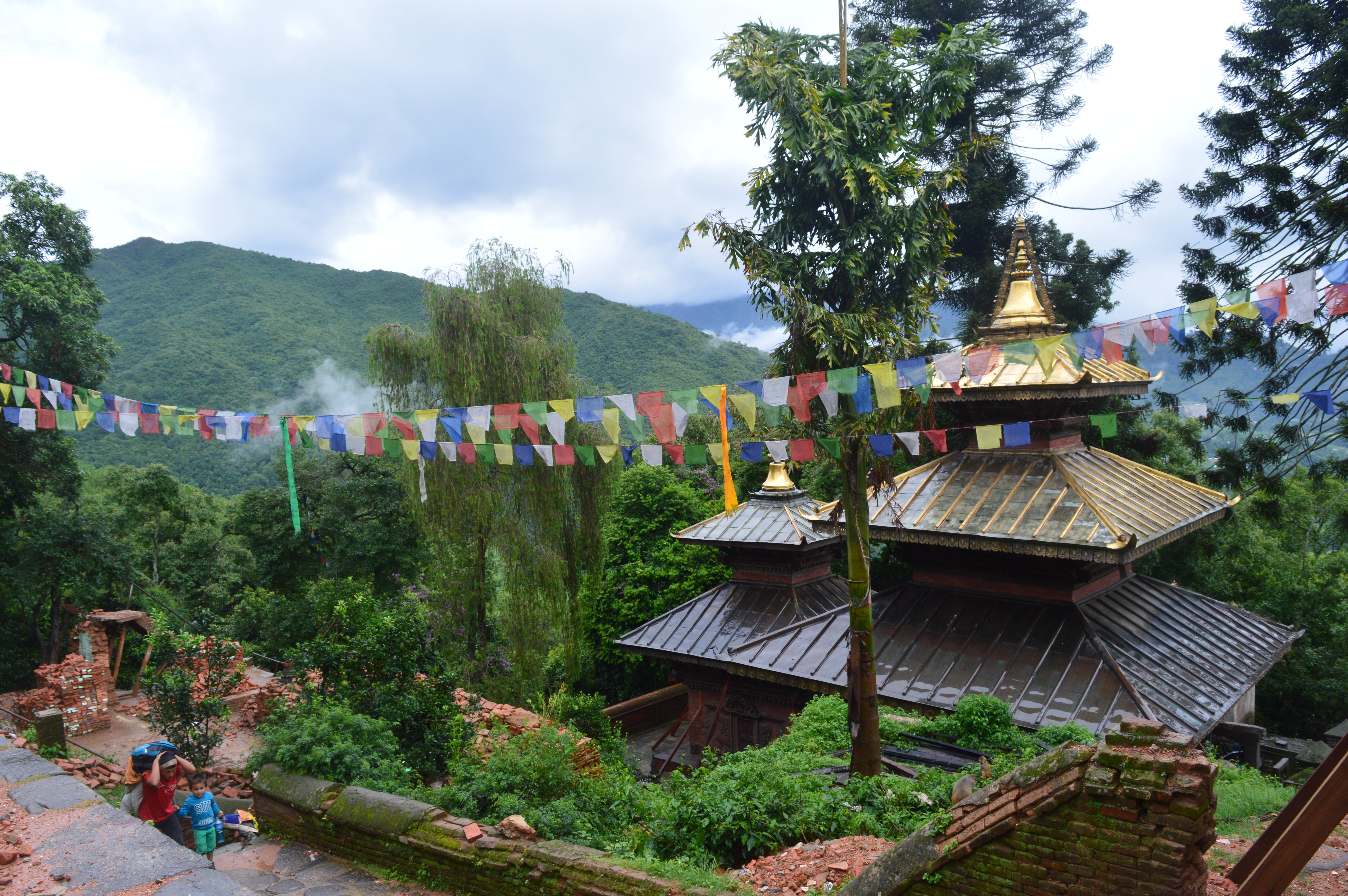 Bajrayogini Temple, Sankhu, July 2015